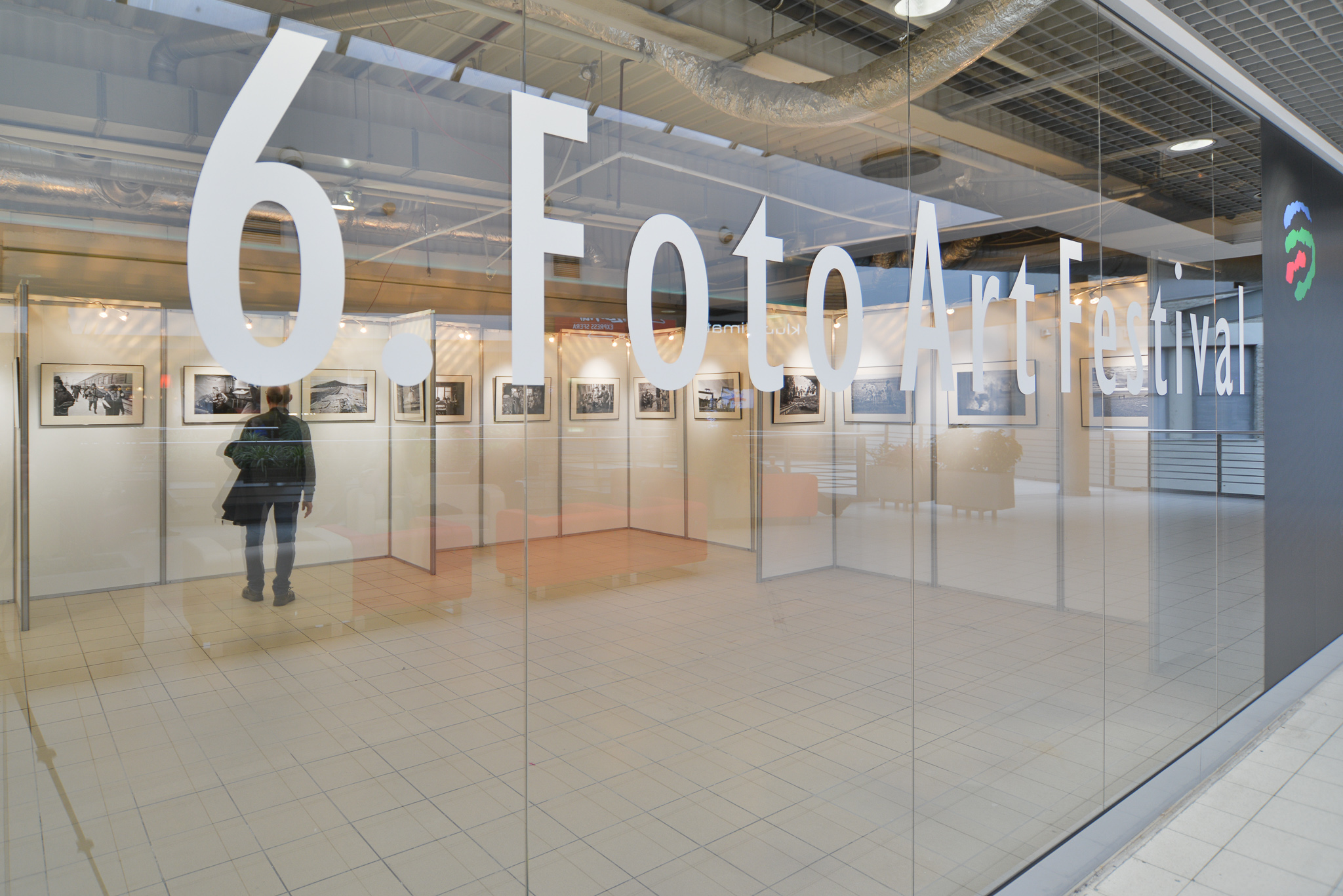 6. FotoArtFestival Biennial of world photography. Bielsko-Biała. Poland. Exhibition